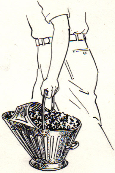 line art drawing of a coal scuttle.